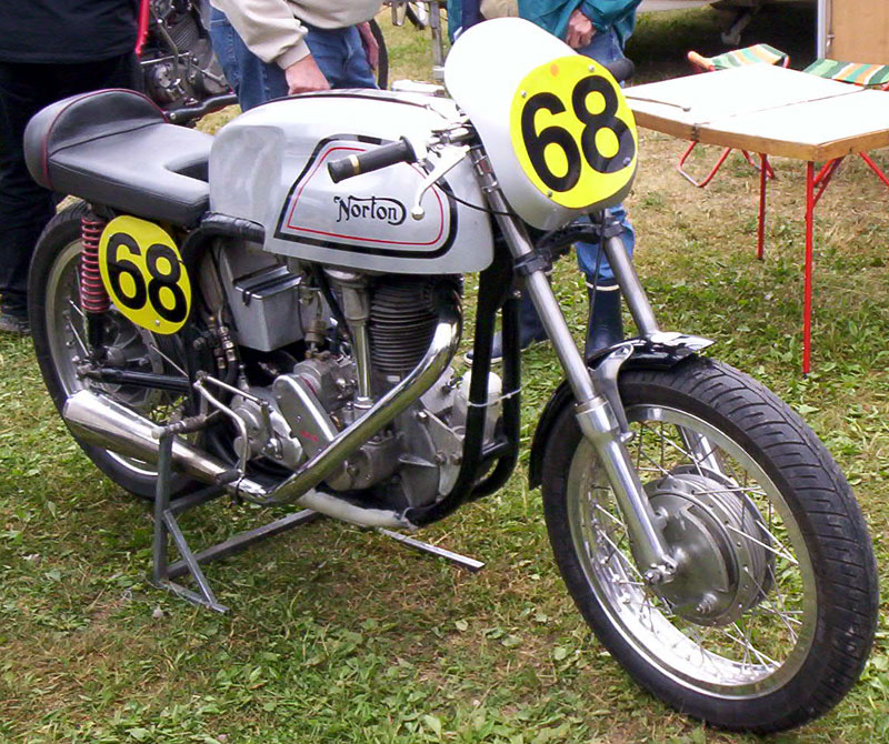 Norton International 500 cc 1955